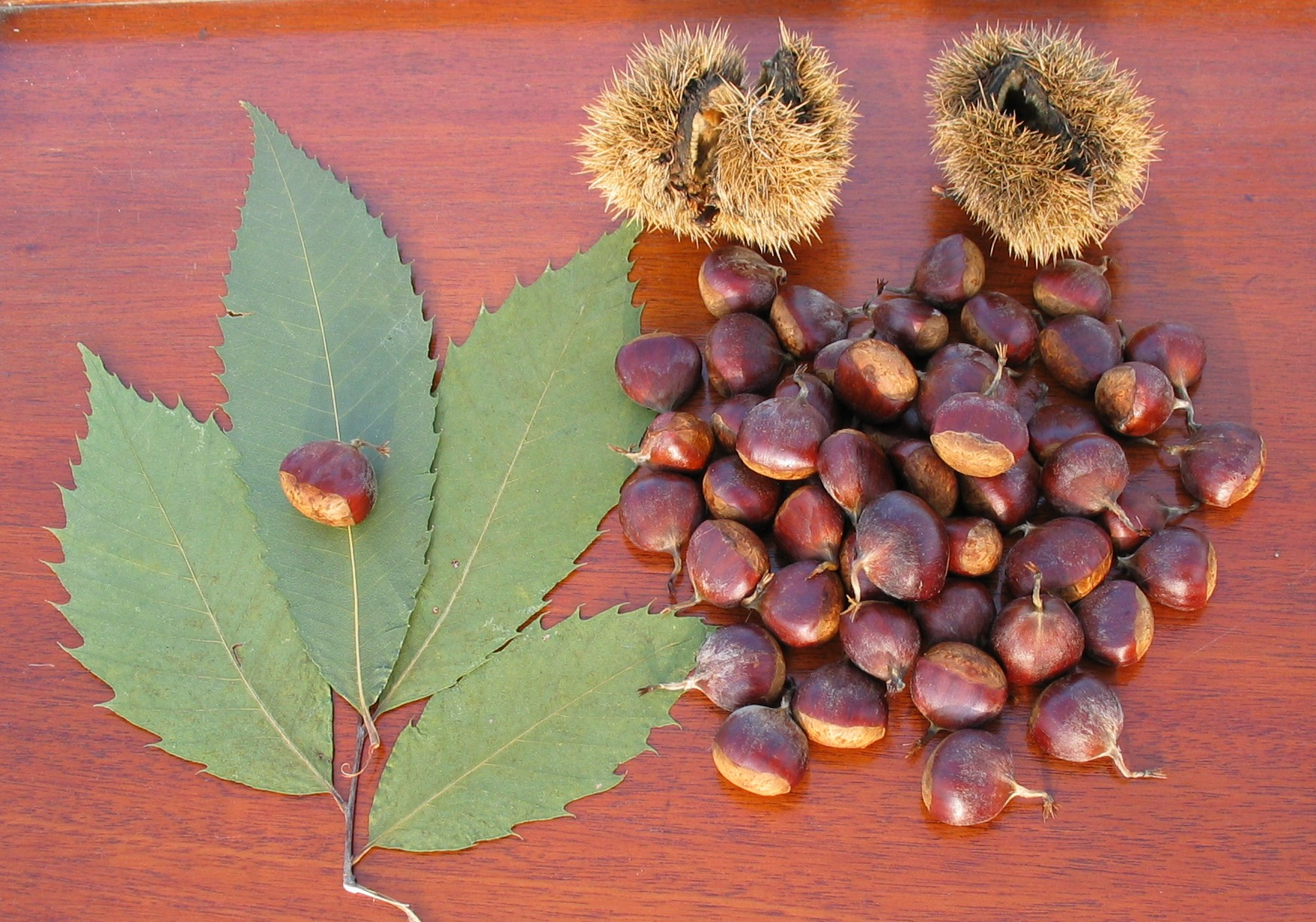 American Chestnut Nuts with Burrs and Leaves. Photo by myself: Timothy Van Vliet 2004 from my Orchard in New Jersey